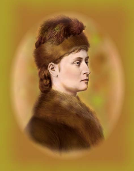 Princess Louise, Marchioness of Lorne, as Viceregal Consort of Canada